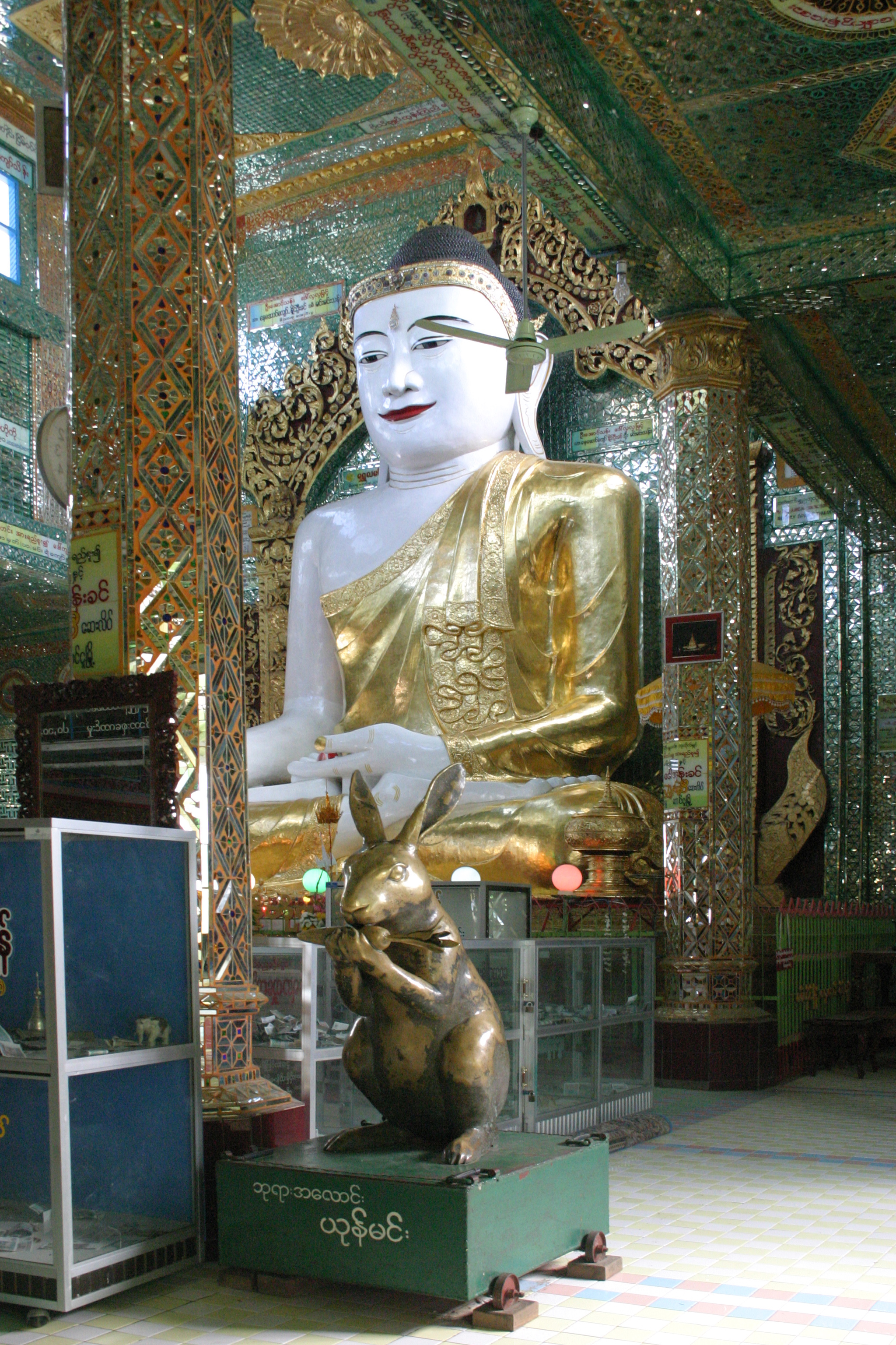 Sun U Ponnya Shin-Pagoda, Sagaing, Myanmar